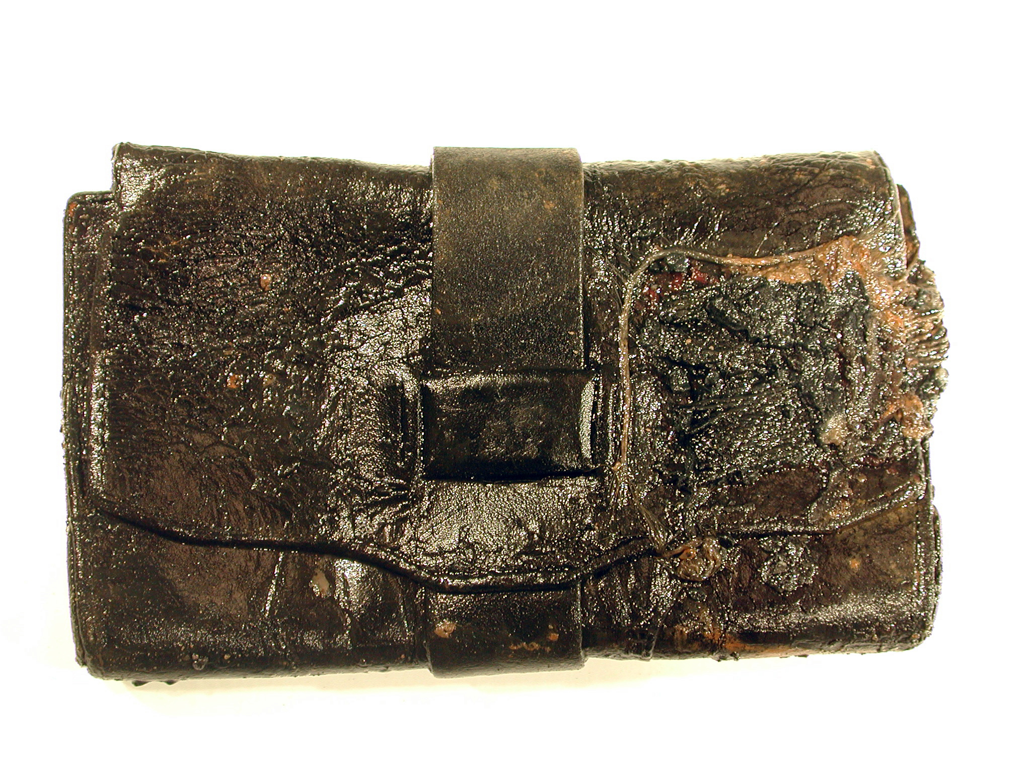 Naval Historical Center, Navy Yard, Washington D.C. (Feb. 21, 2003) -- This Civil War-era wallet was discovered by Naval Historical Center archeologists during their excavation of the Confederate submarine H.L. Hunley. The archeologists stated that the wallet was in remarkably good condition. Hunley became the first submarine in history to sink a warship during the Civil War in 1863. Photo by Chris Ohm. (RELEASED)